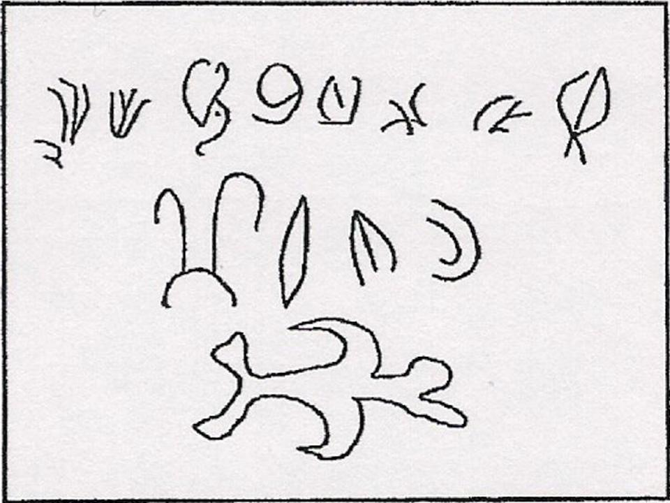 This is the first known document in which rongo-rongo symbols are shown. This symbols were drafted by 3 Rapanui chiefs to sign the anexion of the Easter Island to the Spanish Crown on November 20th 1770. The expedition was led by Felipe González Haedo, a Spanish naval officer veteran of the Jenkins Ear War.